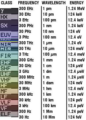 Electromagnetic spectrum diagram